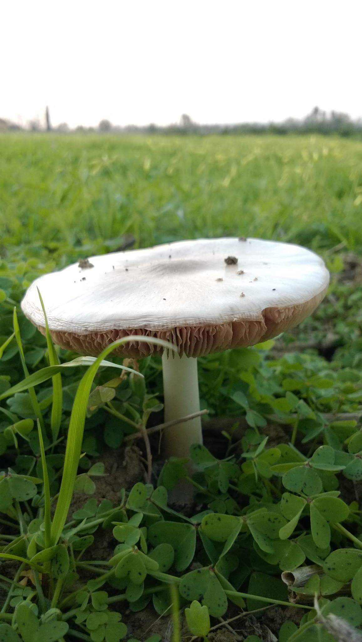 Mushrooms